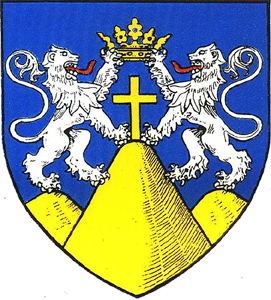 Coat of arms of Suceava County, Romania.